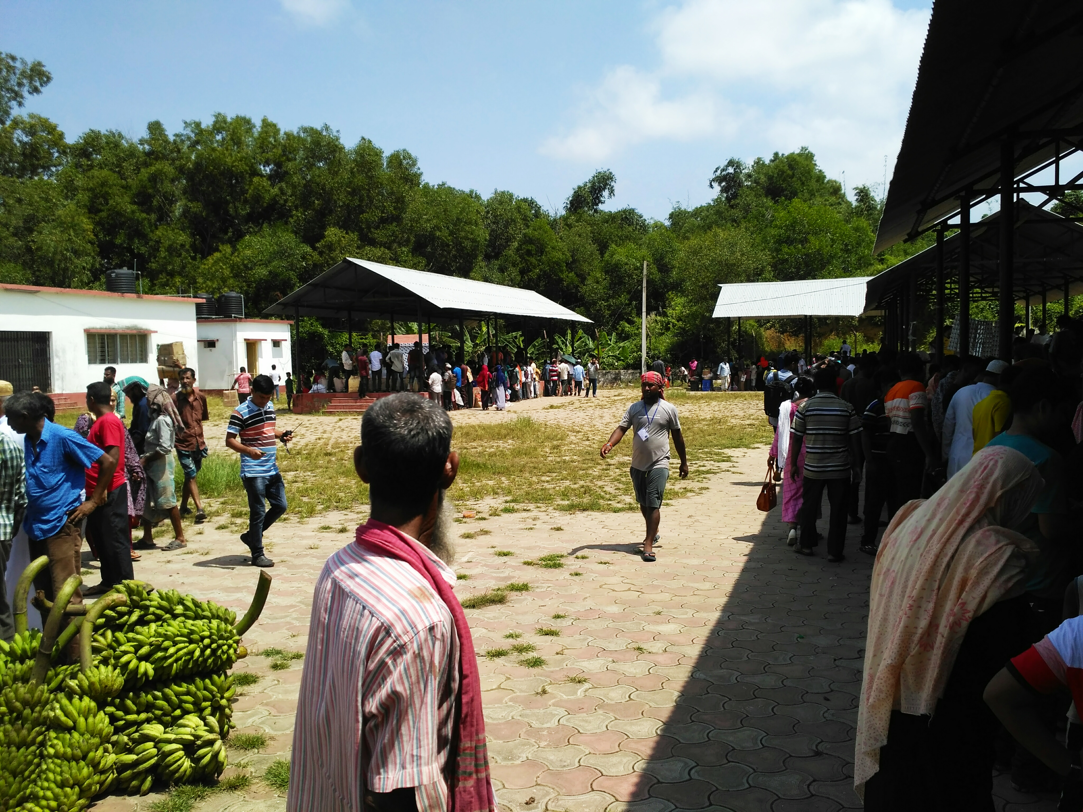 Tarapur Kamalasagar border haat, Kasba. It is one of the India- Bangladesh border haat at Tarapur, Kasba, Brahmanbaria - Kamalasagar, Agartala, Tripura border. ( 01.09.2019)